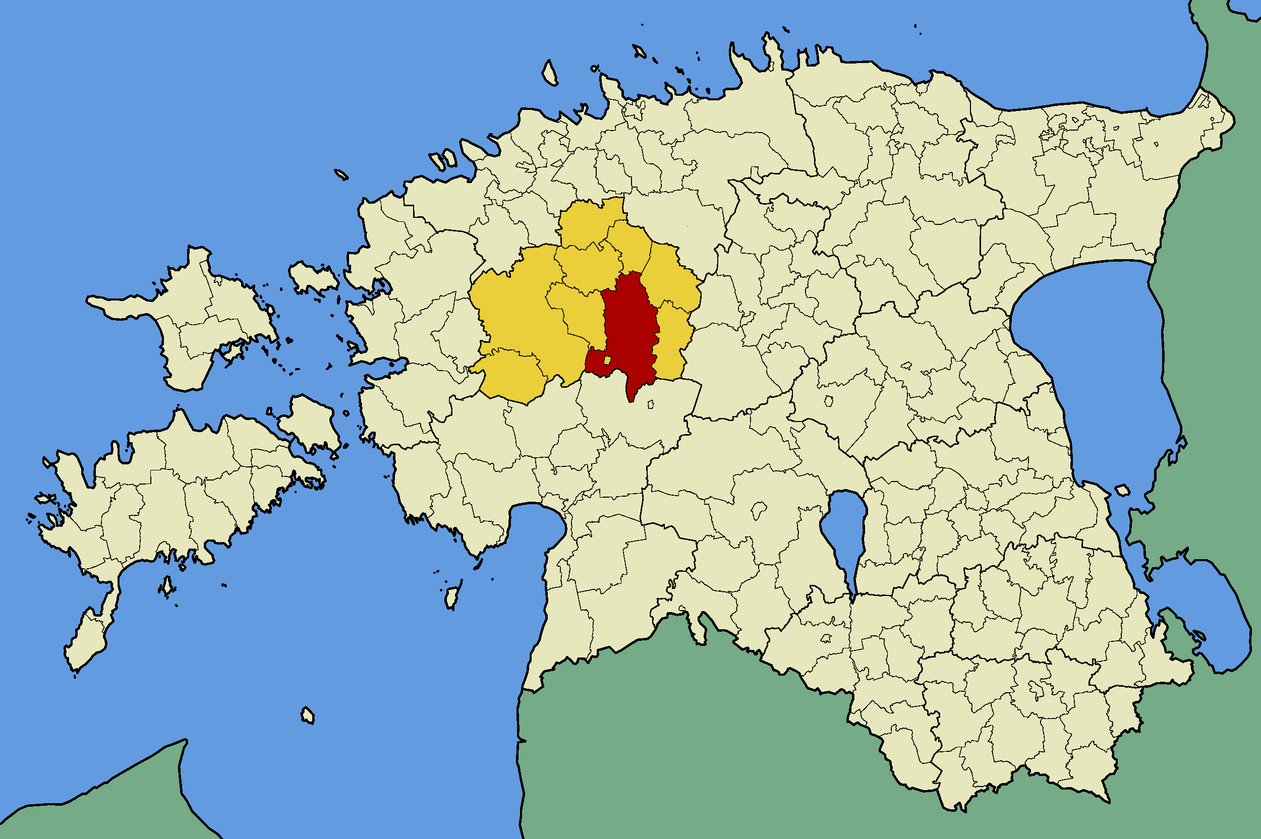 Map of Estonia with borders of municipalities (parishes). Rapla county and Kehtna municipality emphasized.